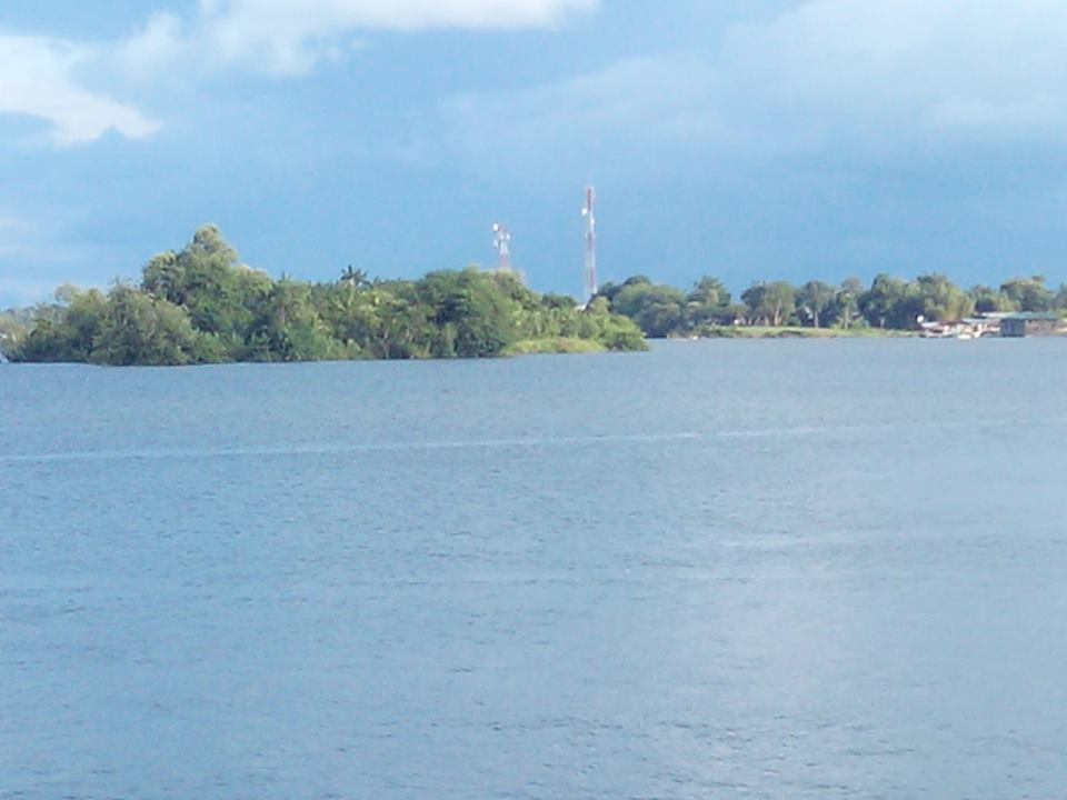 Desembocadura